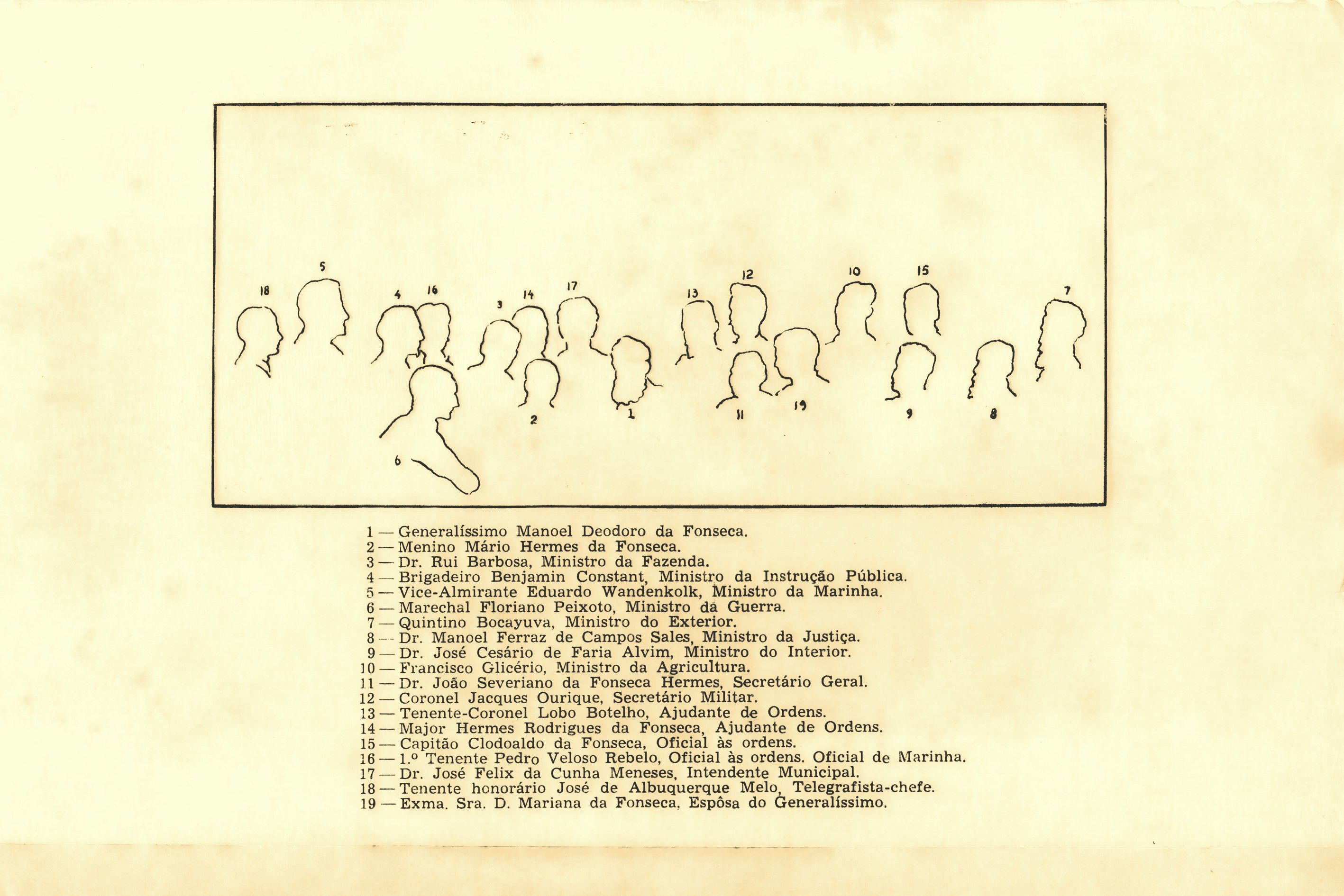 6th page of tome 1 of 17th volume of Obras Completas de Rui Barbosa, commissioned by the Brazilian government in Decree-Law 3.668 of September 30th, 1941.